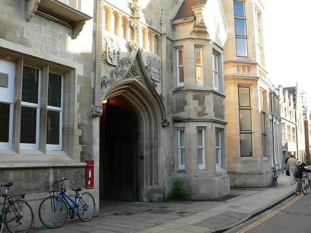 The Cavendish Laboratory The Cavendish Laboratory was the home of some of the great discoveries in physics. It was founded in 1874 by the Duke of Devonshire (Cavendish was his family name), when its first professor was James Clerk Maxwell. In 1974 the department moved to new premises.